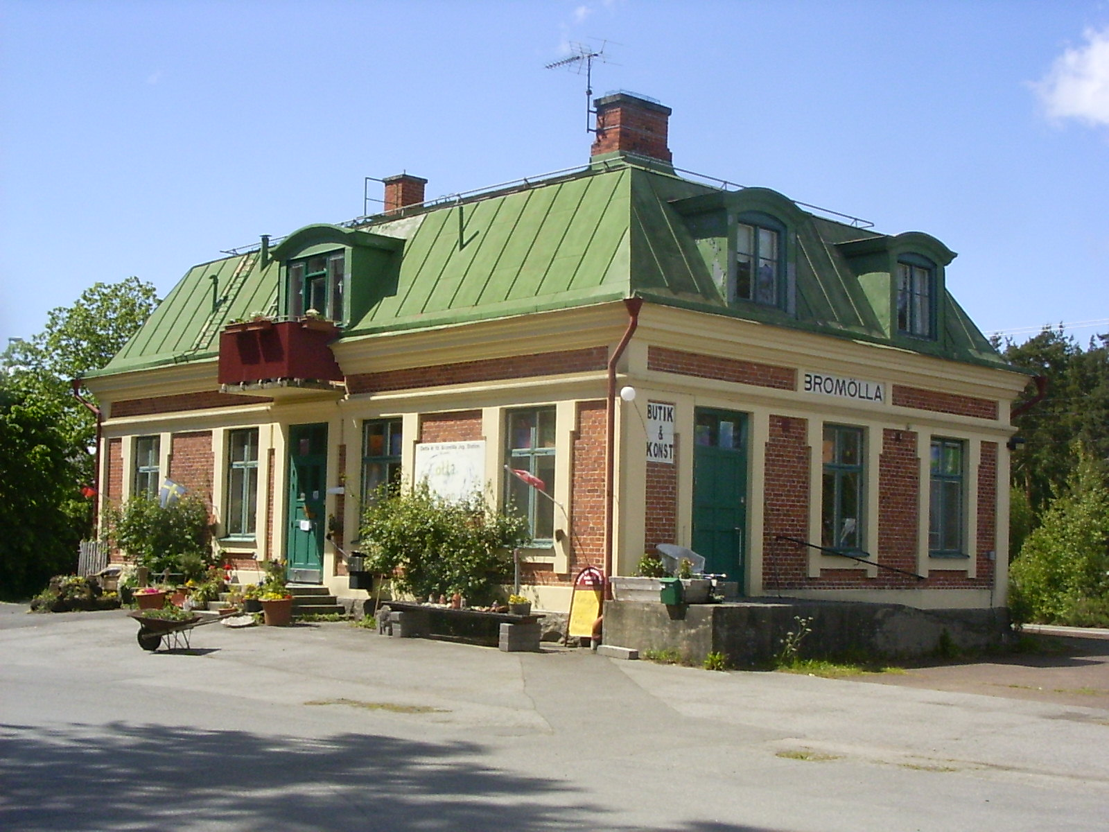 Bromölla, former railway station